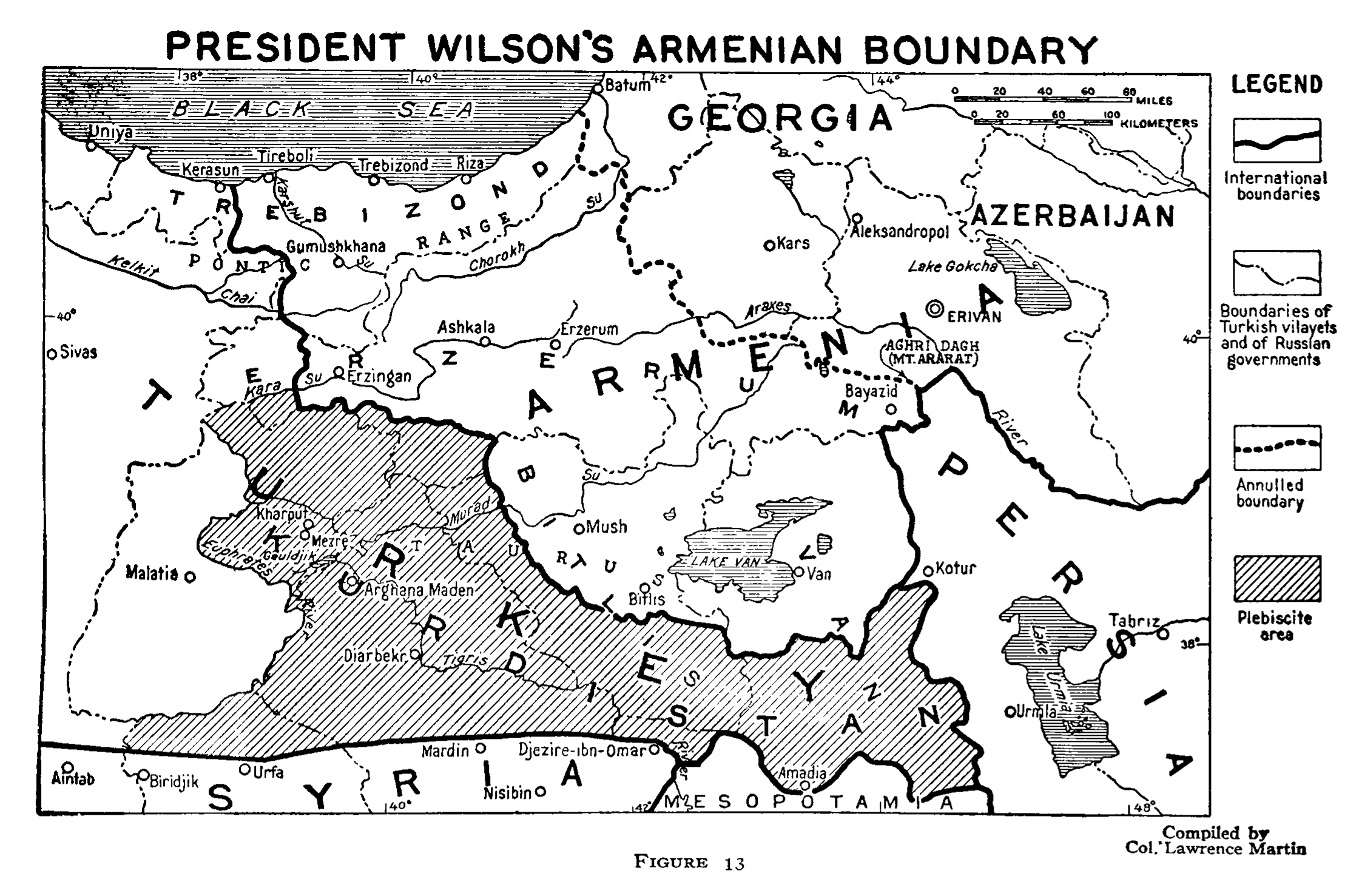 Map of Eastern Turkey, showing the extent of Turkish Armenia according to President Wilson's boundary decision in Treaty of Sèvres.